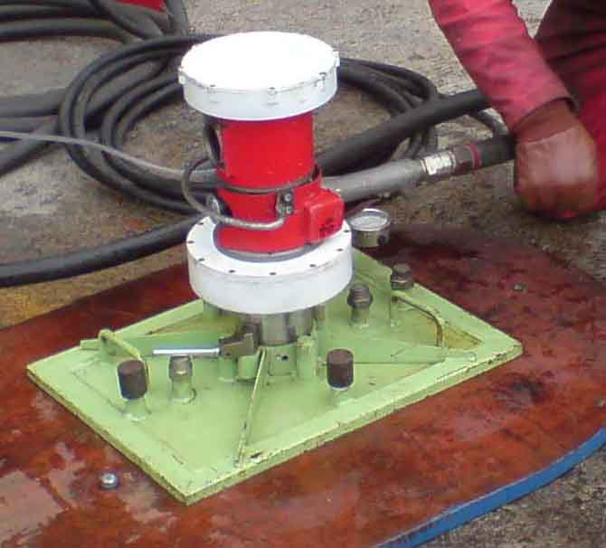 An air-powered portable Friction Stud Welding tool.